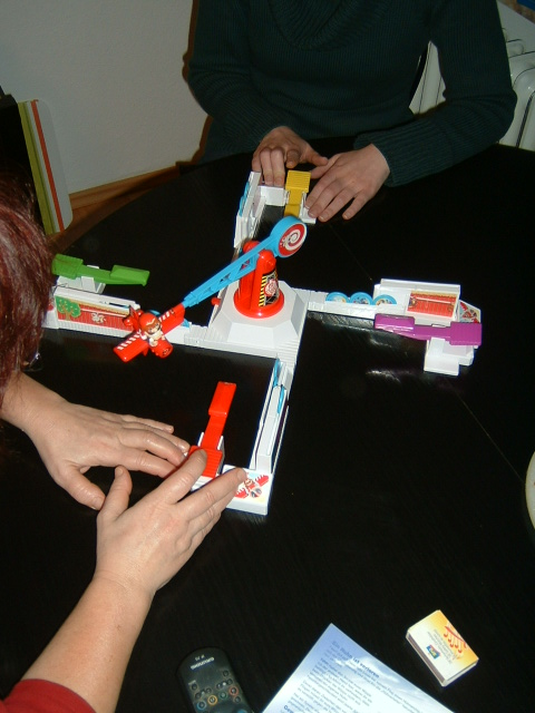 Looping Louie, a childrens game by MB games. 1994 Kinderspiel des Jahres Award in Germany